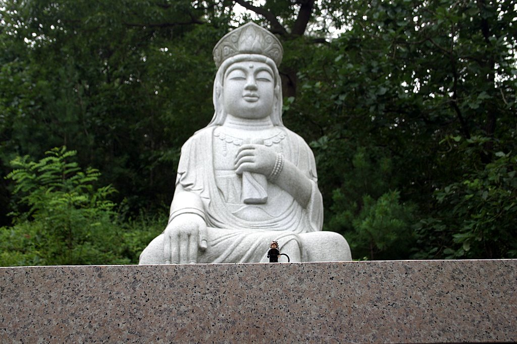 Buddha statue of Bohyeonsa at Cheongdo County, Gyeongsangbuk-do, South Korea.